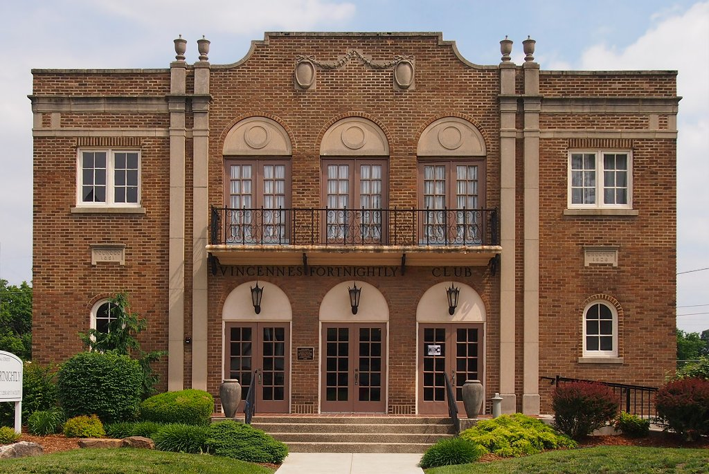 Vincennes Fortnightly Club, 421 North 6th Street, Vincennes, Indiana, USA. Viewed from the northwest.